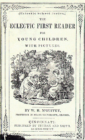 Cover of McGuffey's First Eclectic Reader by William Holmes McGuffey, Truman and Smith Publishing, 1841